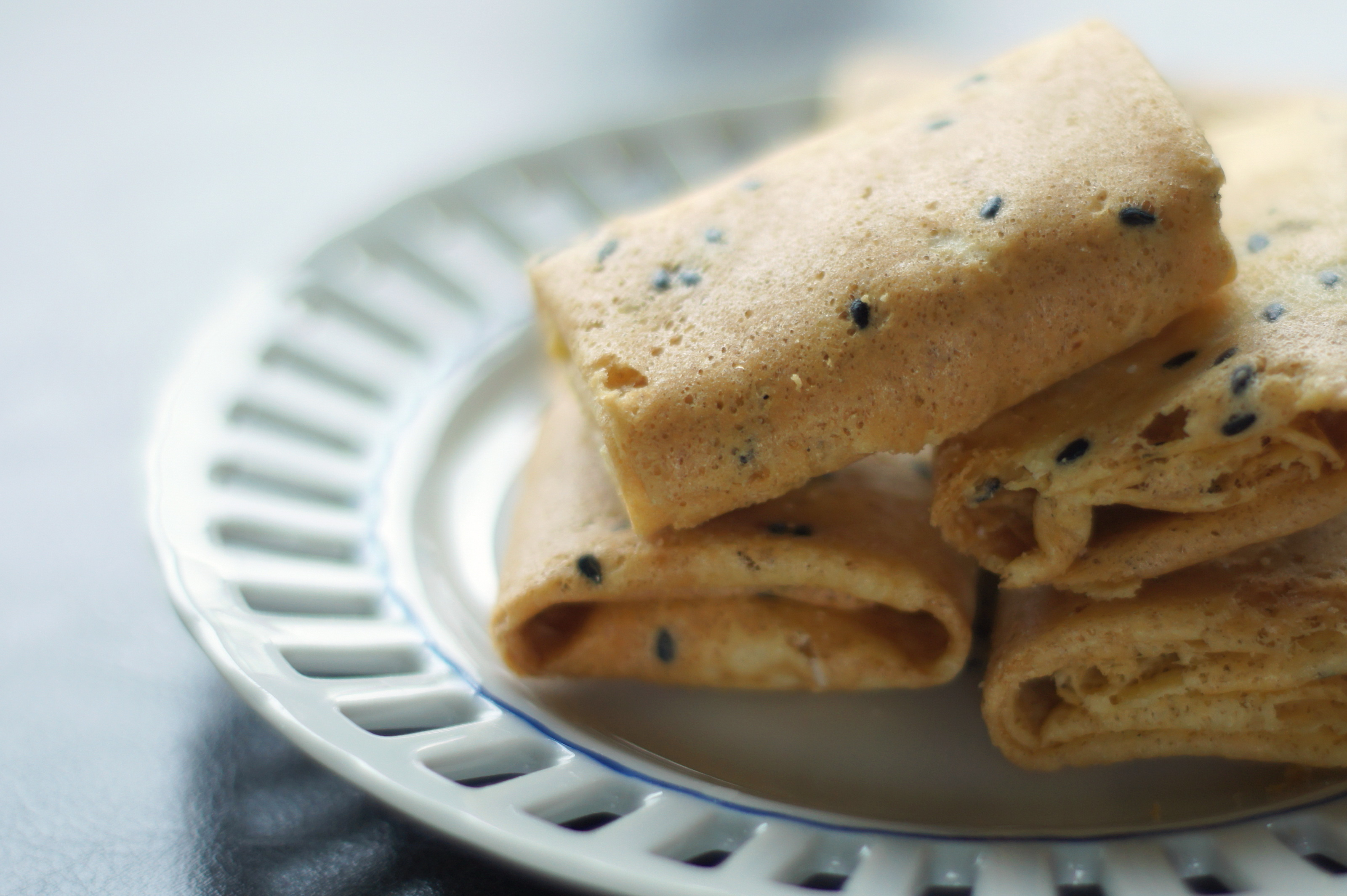 Phoenix Egg Roll with Black Sesame (Koi Kei Bakery)